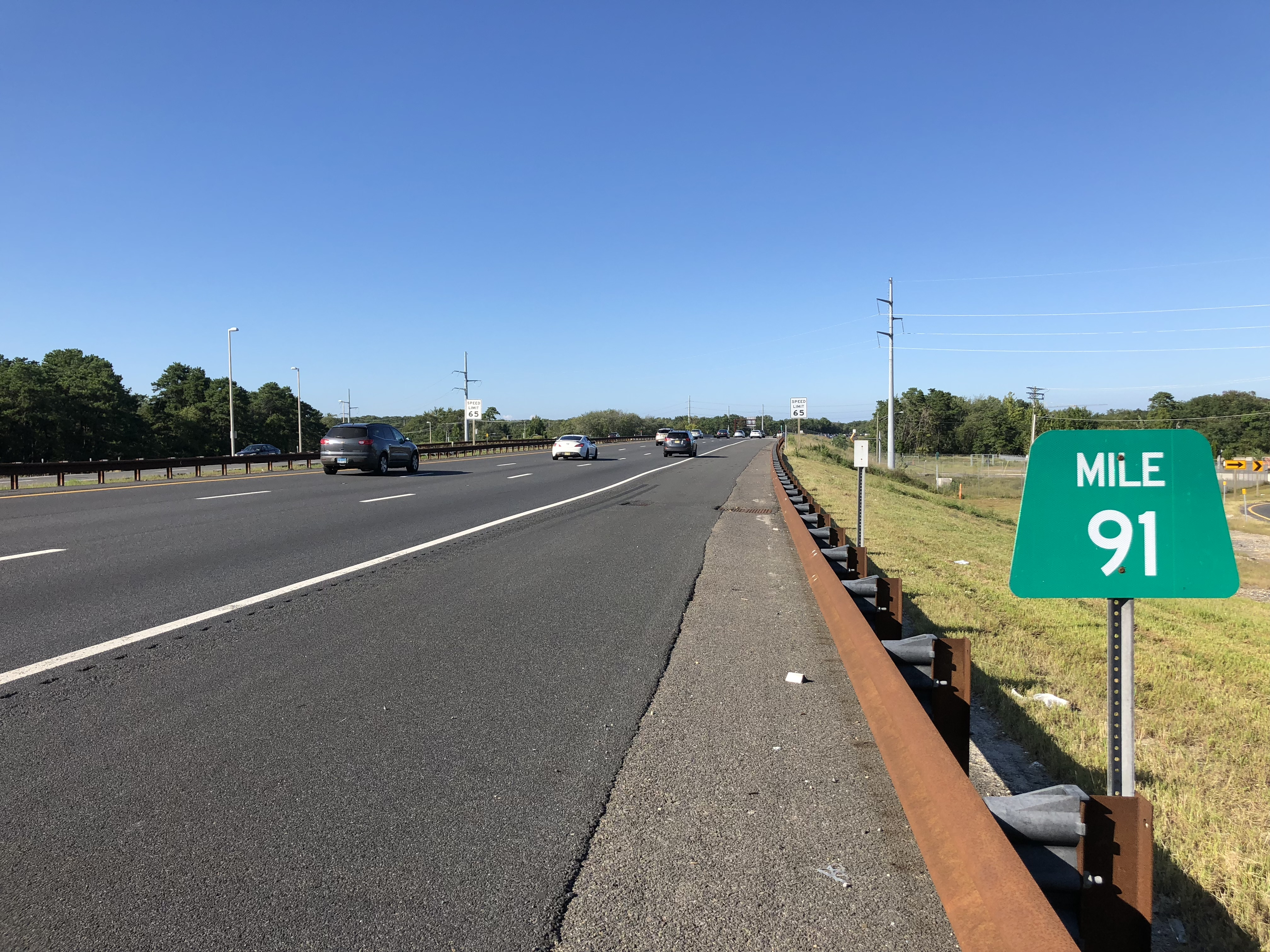 View north along New Jersey State Route 444 (Garden State Parkway) just north of Exit 90 in Brick Township, Ocean County, New Jersey